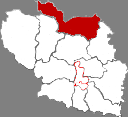 Location of Wuxiang county in Changzhi City, China